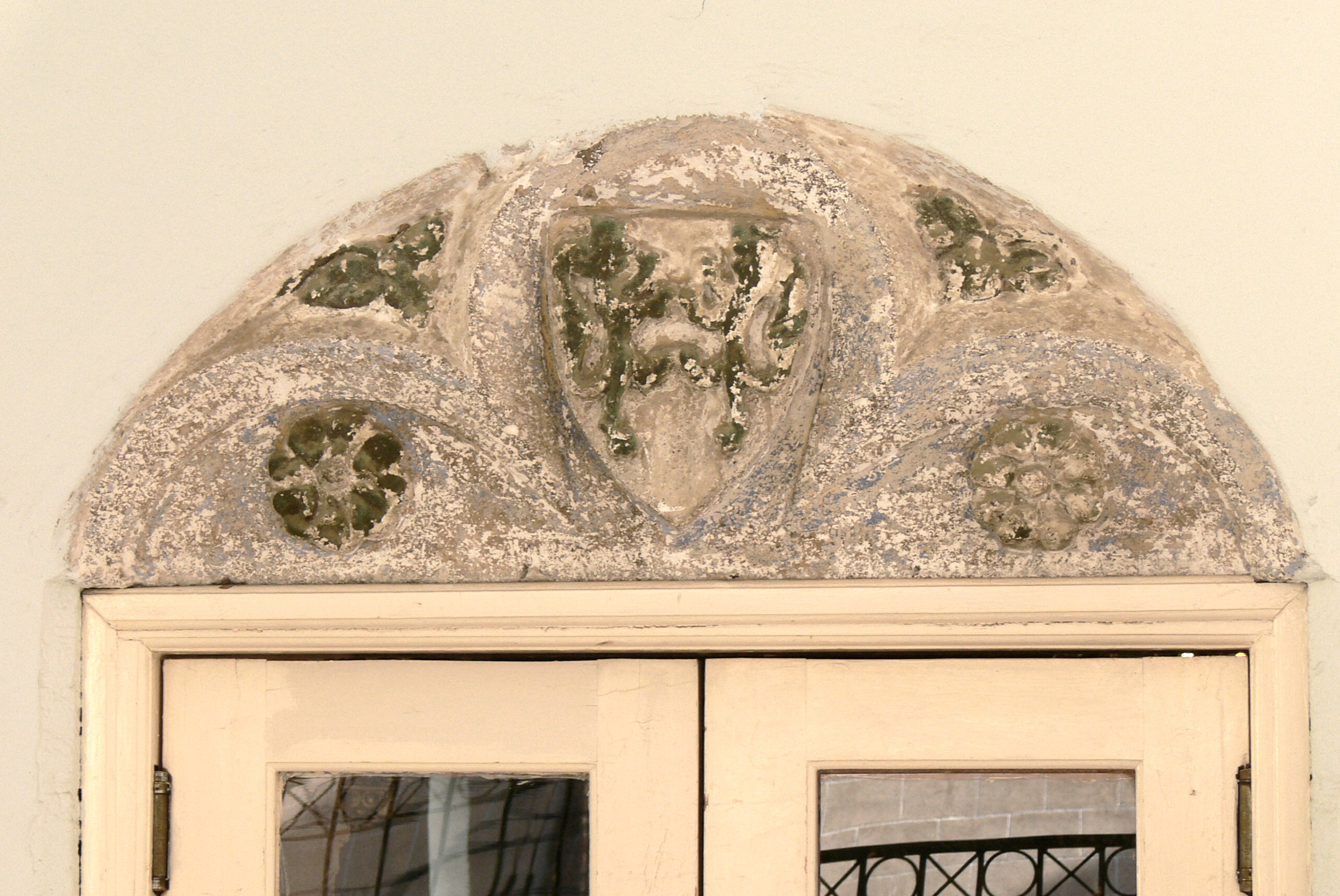 Nicosia ( Cyprus ). Cathedral of Saint John ( 1662 ): Tympanum with coats of arms of the Lusignan above the entrance.